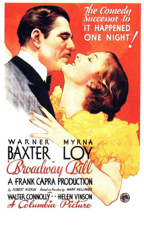 Poster from the American drama film Broadway Bill (1934). The item has no copyright markings on it as can be seen in the links above.